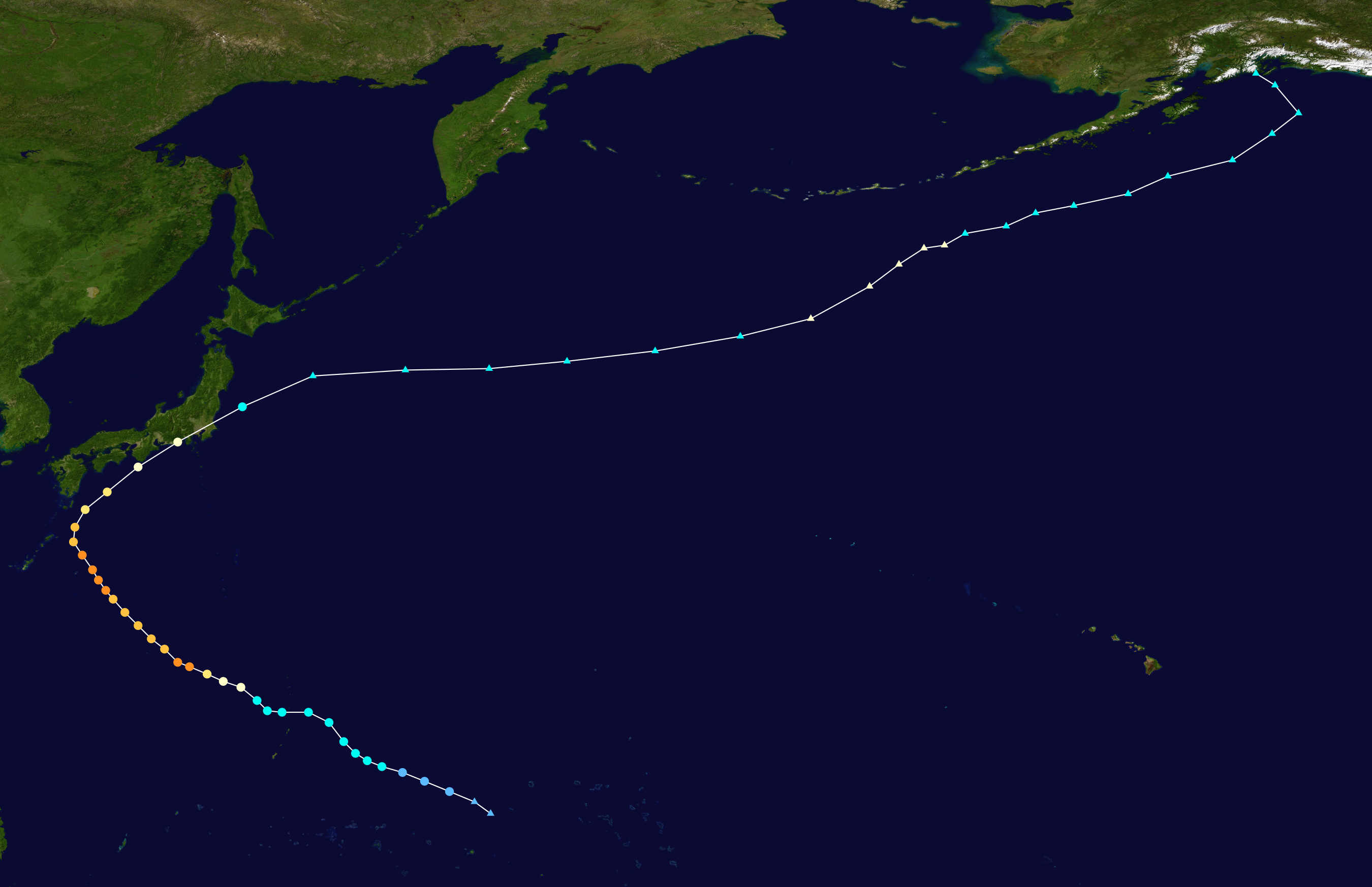 Track map of Typhoon Phanfone of the 2014 Pacific typhoon season. The points show the location of the storm at 6-hour intervals. The colour represents the storm's maximum sustained wind speeds as classified in the Saffir–Simpson scale (see below), and the shape of the data points represent the nature of the storm, according to the legend below. Saffir–Simpson scale Tropical depression≤38 mph≤62 km/h Category 3111–129 mph178–208 km/h Tropical storm39–73 mph63–118 km/h Category 4130–156 mph209–251 km/h Category 174–95 mph119–153 km/h Category 5≥157 mph≥252 km/h Category 296–110 mph154–177 km/h Unknown Storm type Tropical cyclone Subtropical cyclone Extratropical cyclone / Remnant low / Tropical disturbance / Monsoon depression